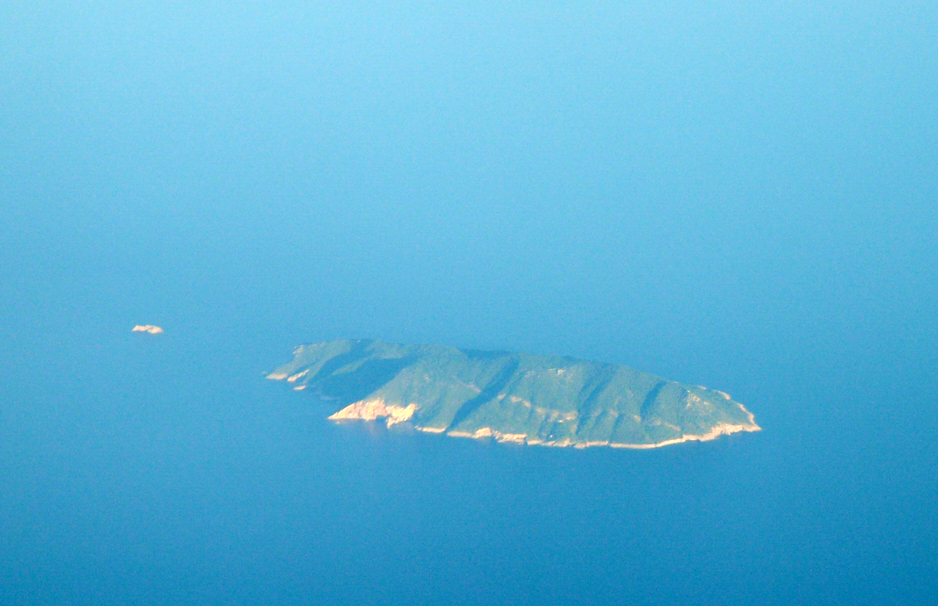 Sveti Andrija island, also known as Svetac, seen from the airplane. Located in the Adriatic Sea close to the Island of Vis, not far from the city of Split, Croatia.